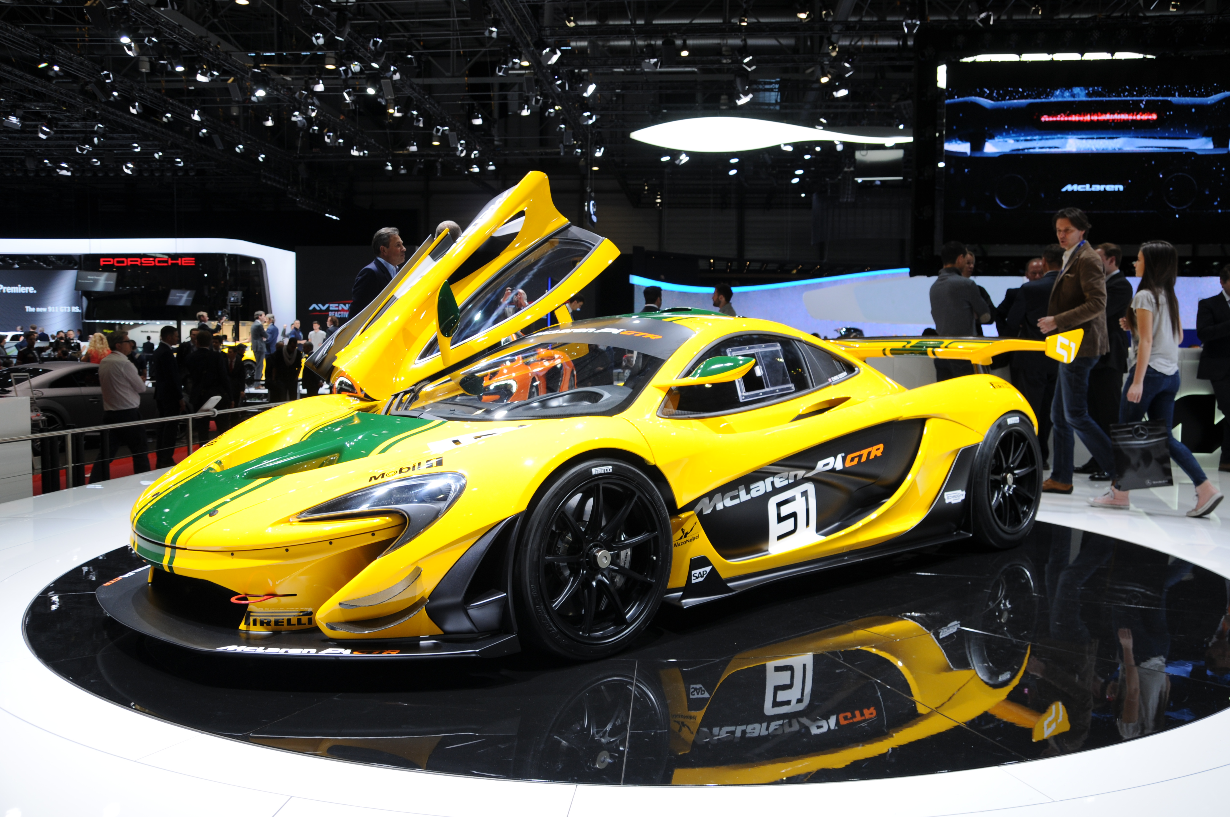 Geneva Motor Show 2015 (photo taken on the first press day)